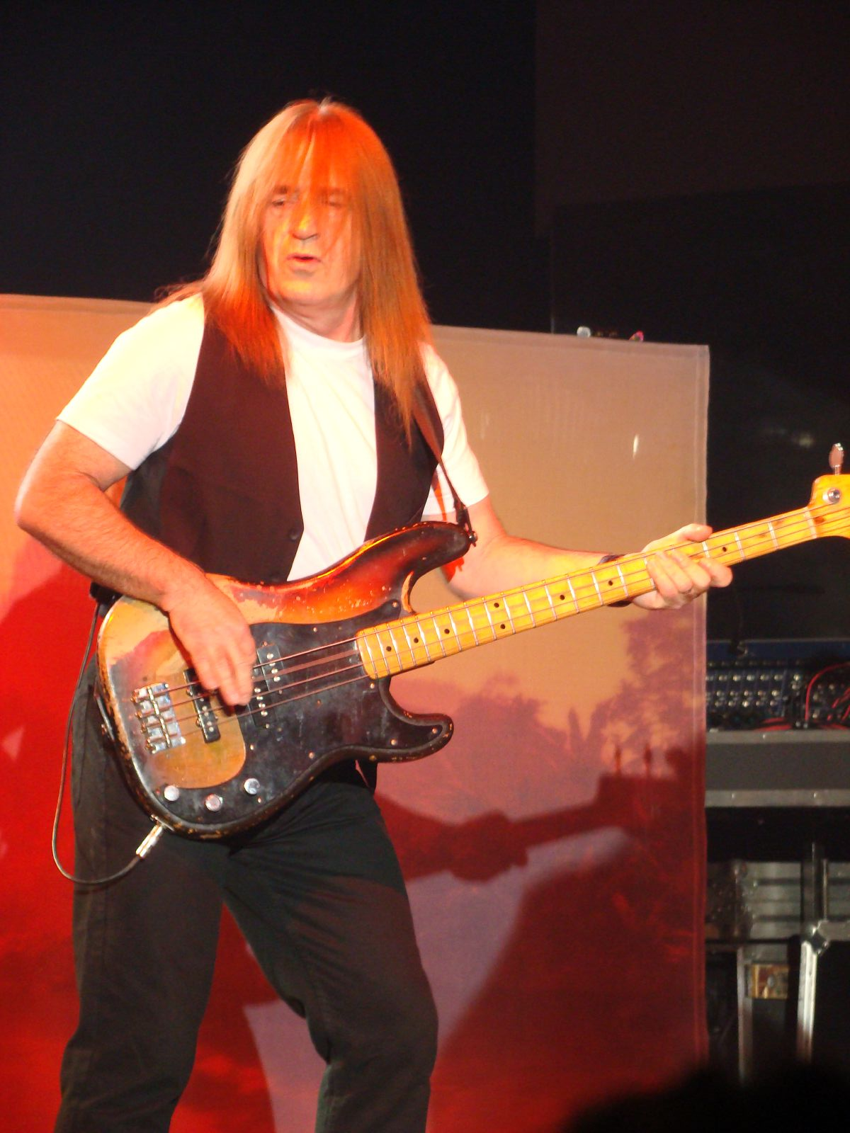 Uriah Heep live